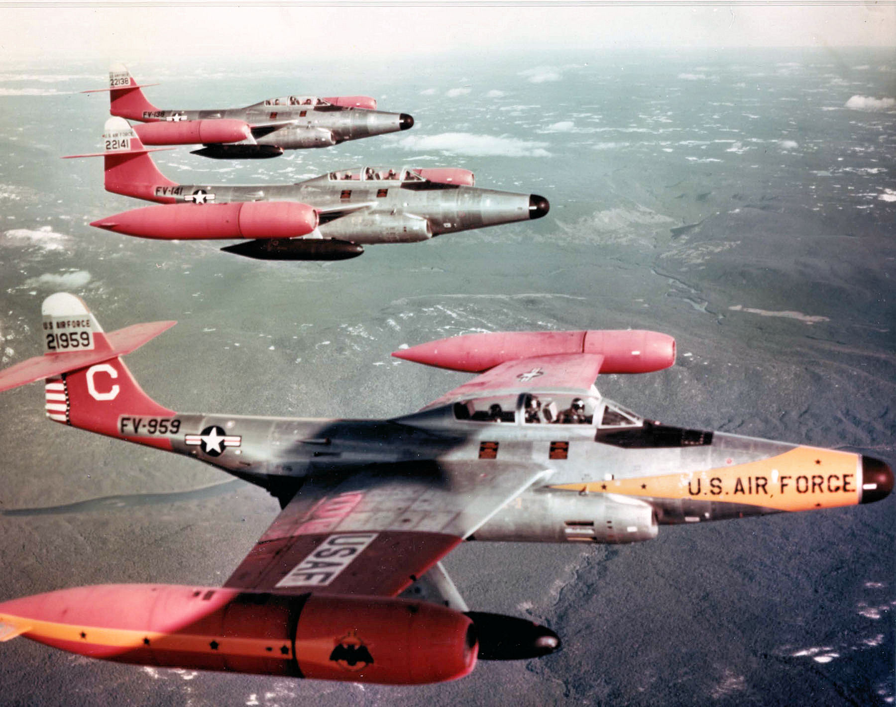 U.S. Air Force Northrop F-89D-45-NO Scorpion interceptors of the 59th Fighter Interceptor Squadrons, Goose Bay AB, Labrador (Canada), in the 1950s. 52-1959 in foreground, now in storage at Edwards AFB, California